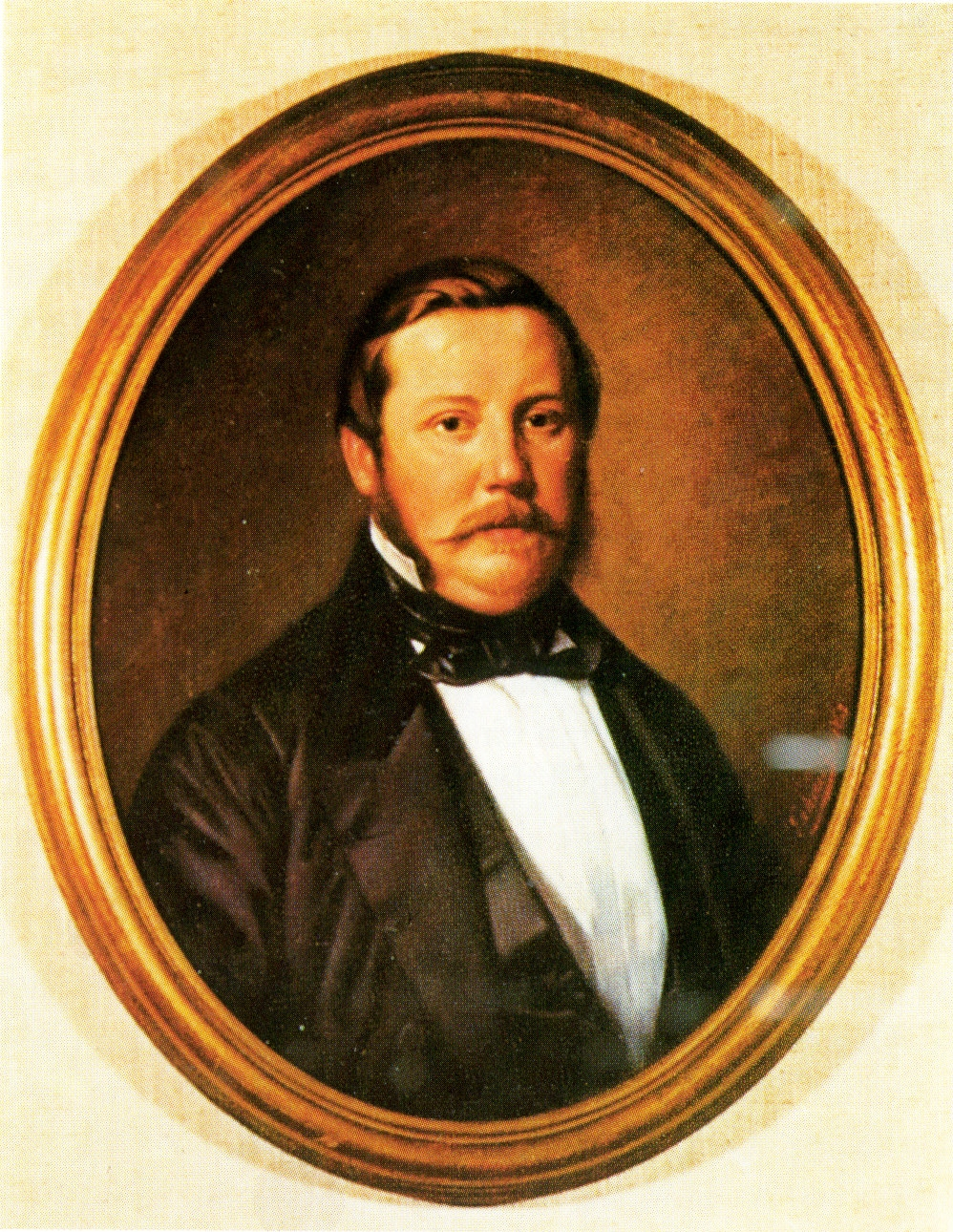 Karl Ehmann, german engineer, 1827-1889